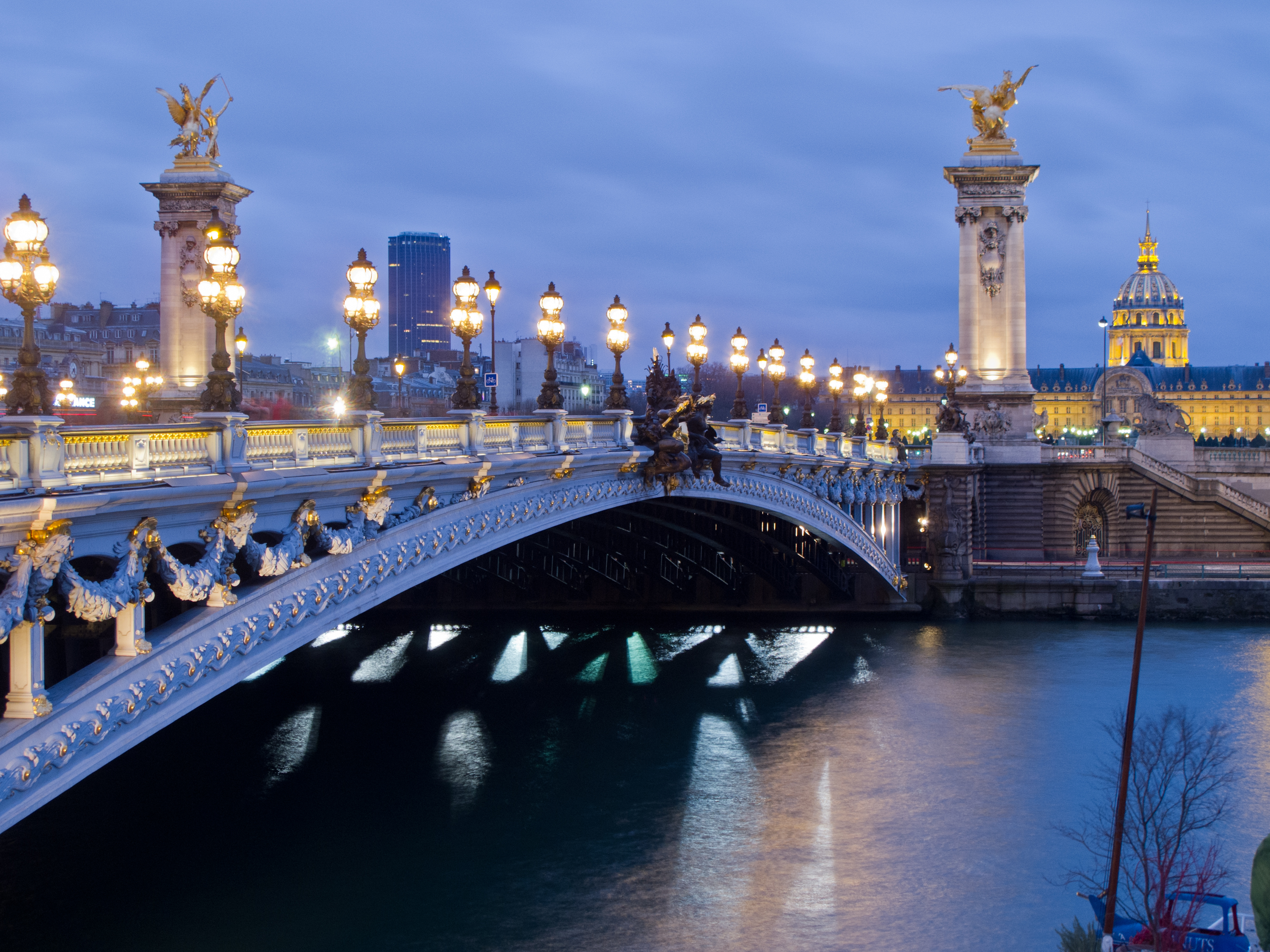 Pont Alexandre III, Paris, France.